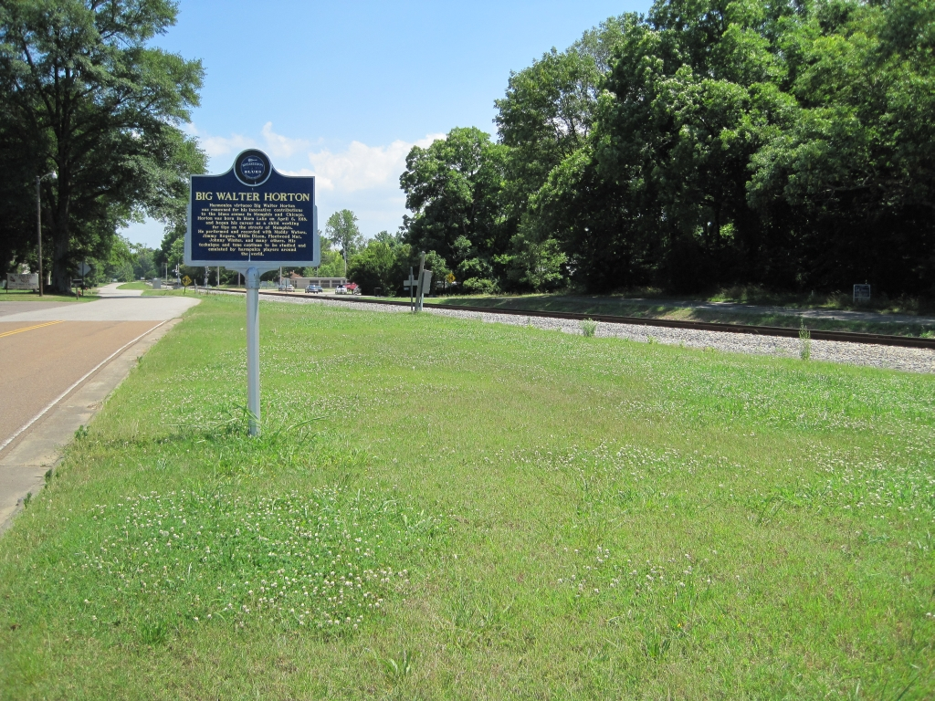 Blues Trail Marker for Big Walter Horton in Horn Lake, Mississippi